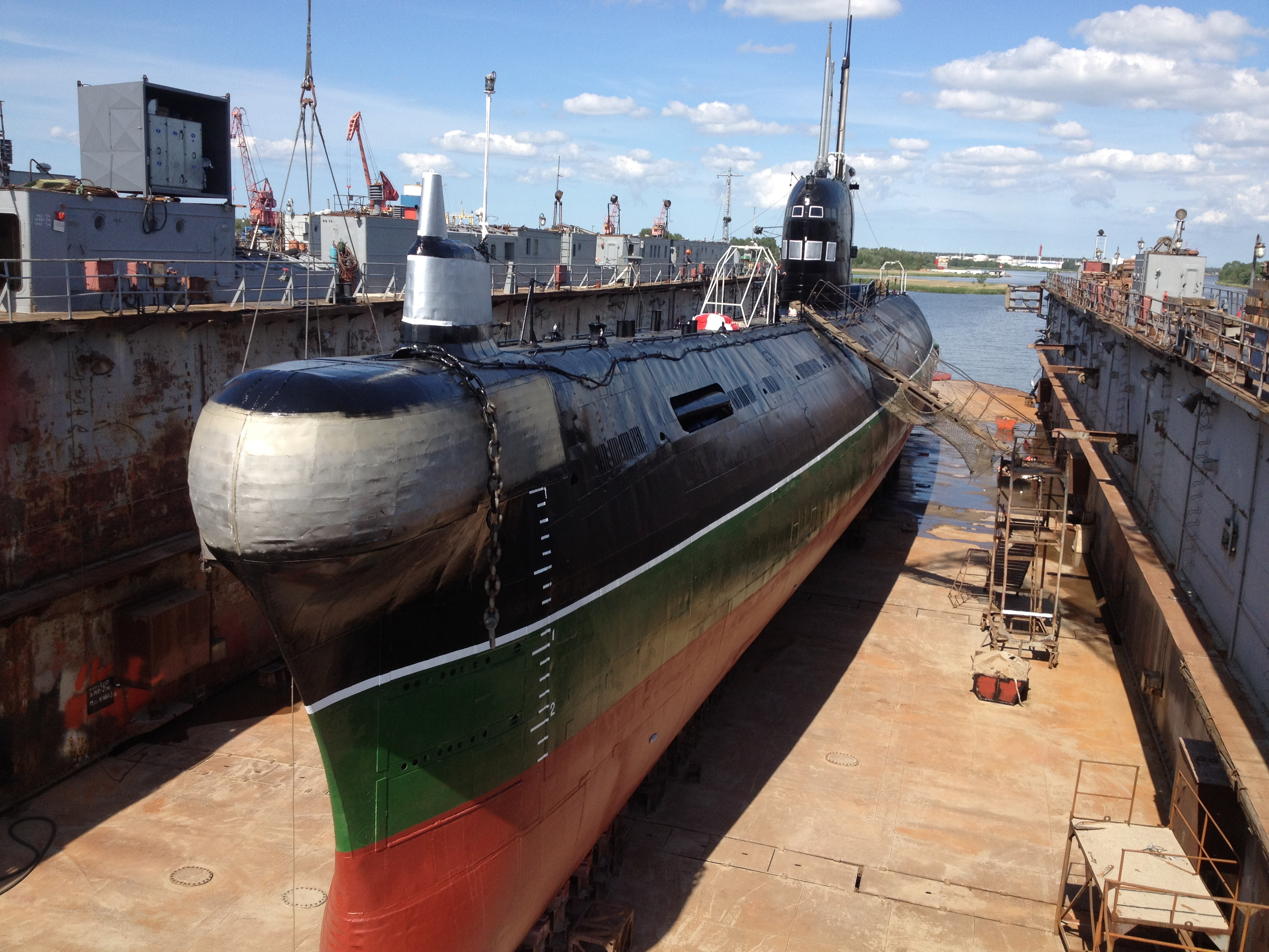 Submarine Б-413 (Foxtrot class Project 641) after repair 2012